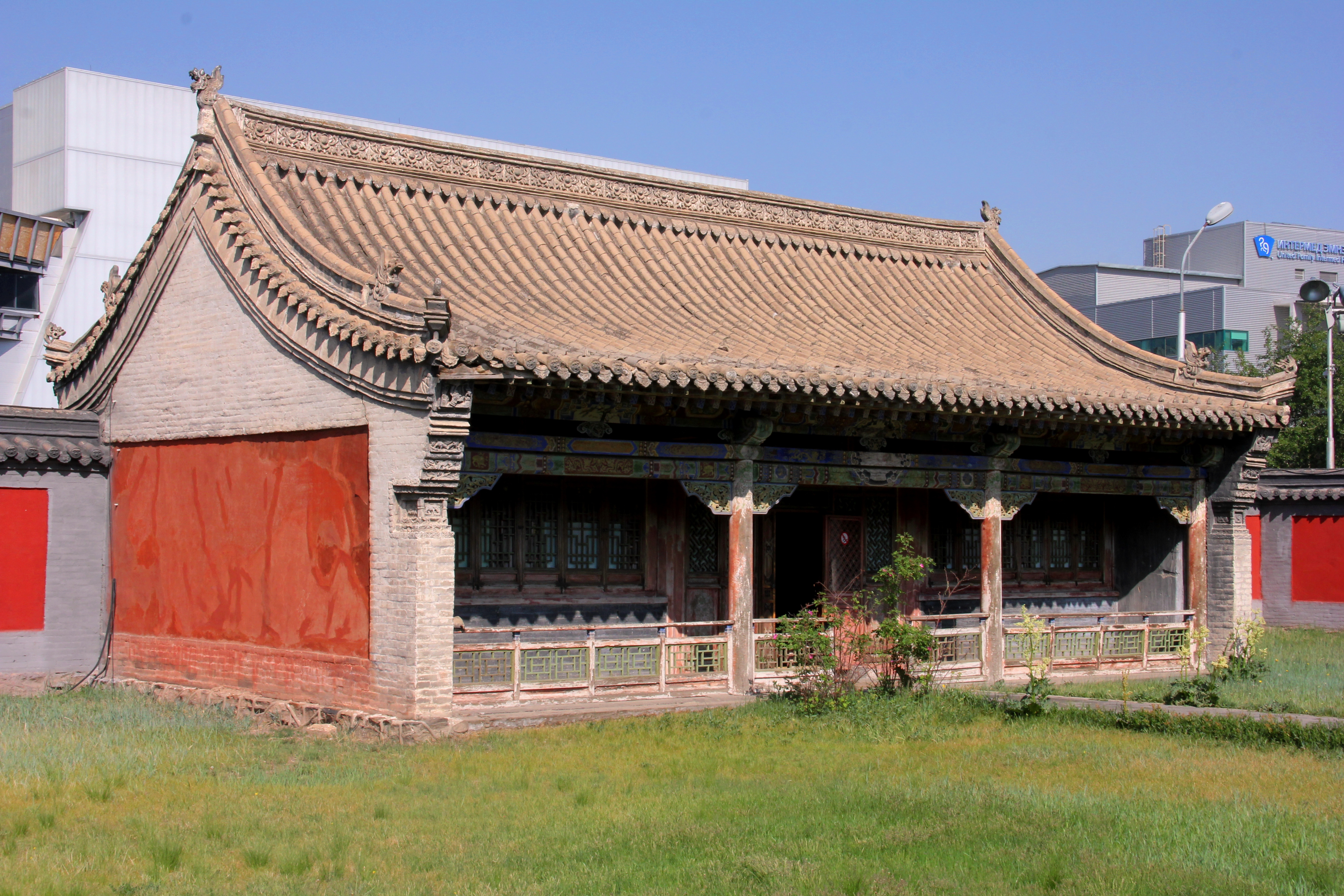 Торгон зургийн сүм